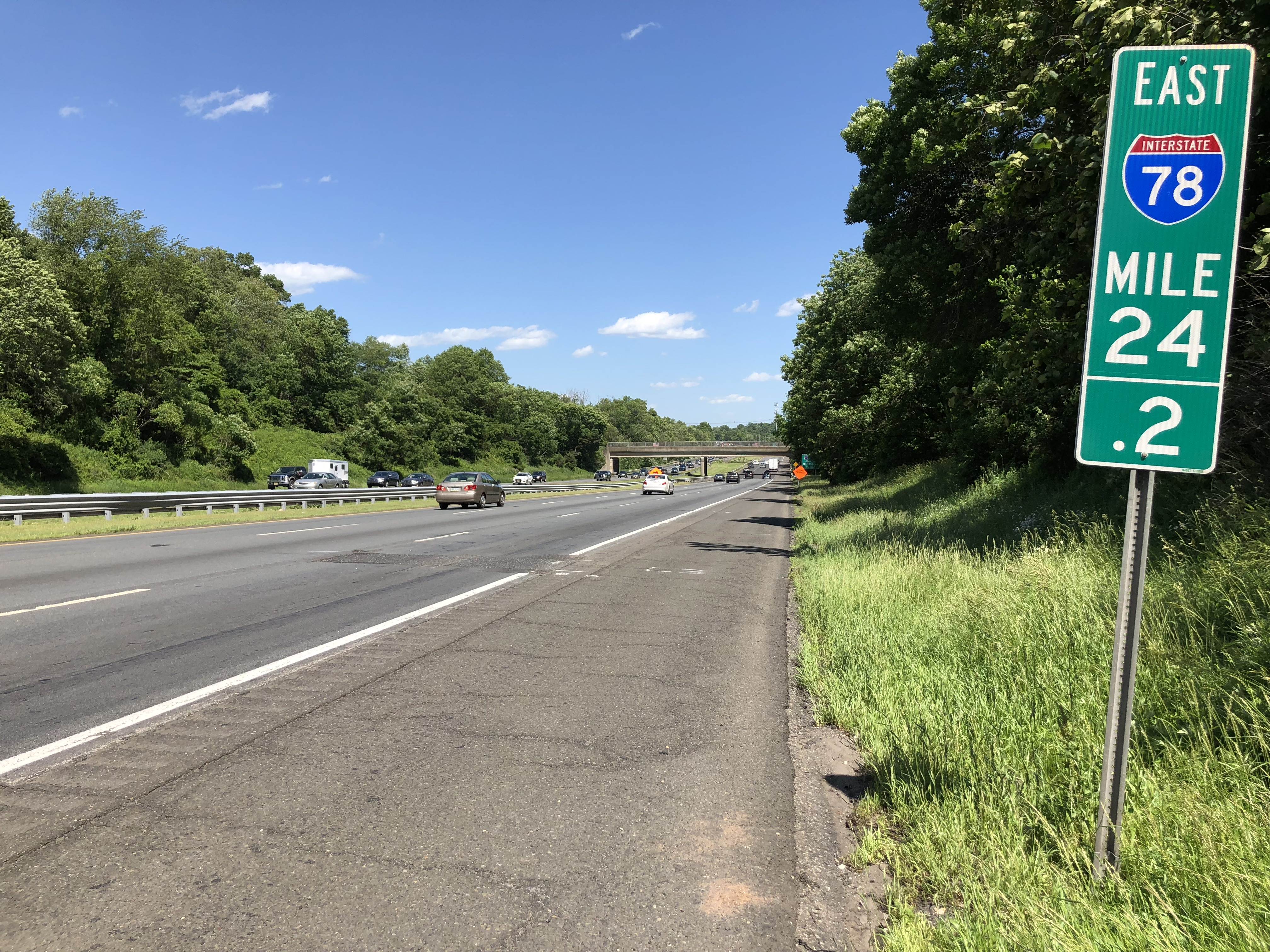 View east along Interstate 78 (Phillipsburg-Newark Expressway) between Exit 18 and Exit 24 in Readington Township, Hunterdon County, New Jersey